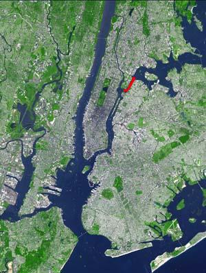 Hell Gate is shown in New York Harbor. Based on public domain image courtesy of NASA. © 2004 Matthew Trump.